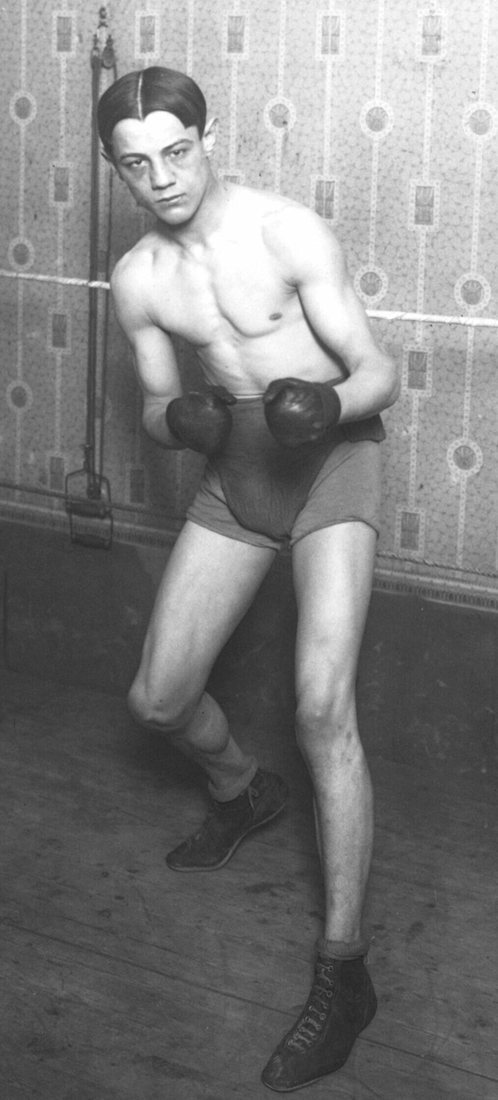 Eugene Criqui [portrait of boxer] : [press photograph]